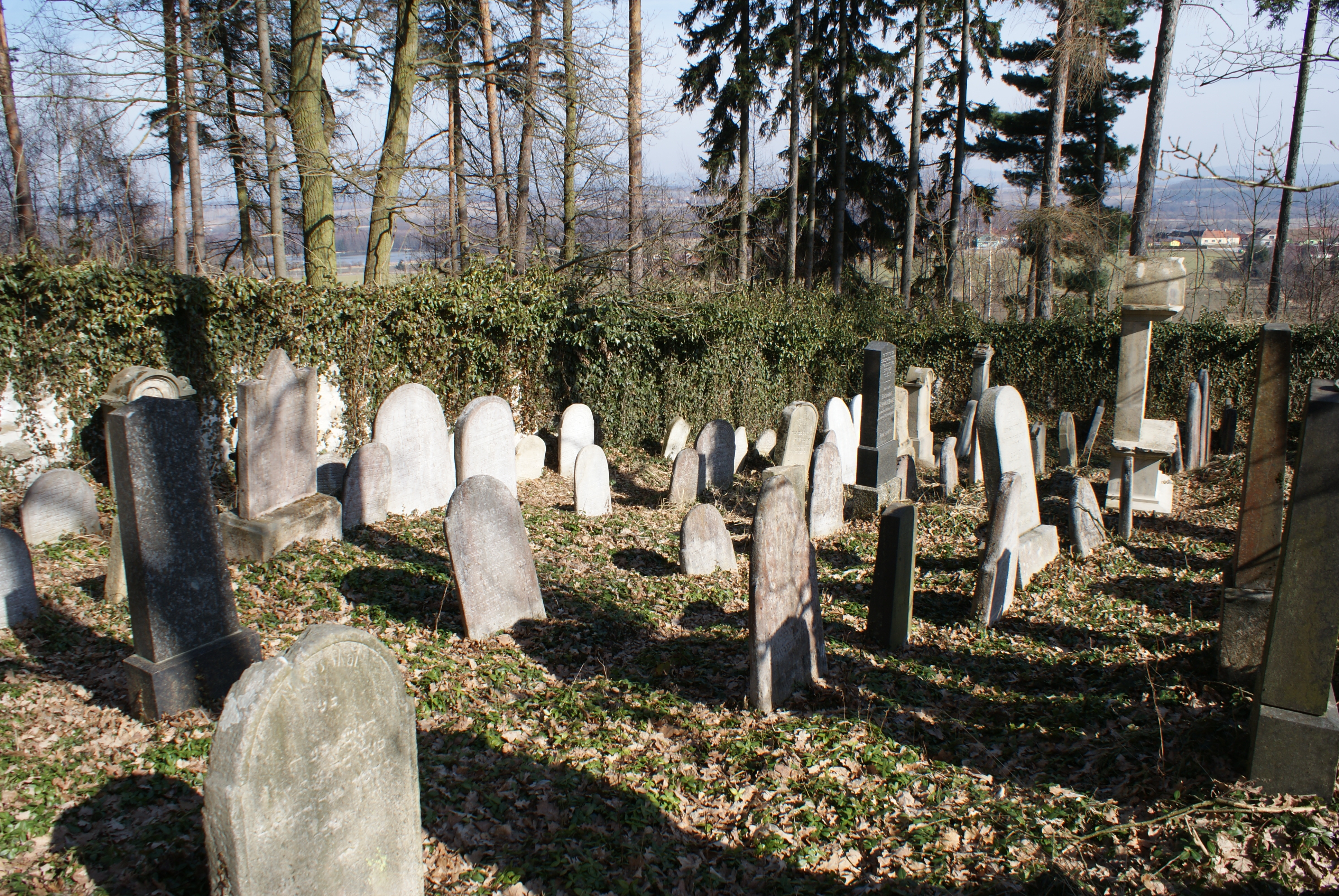 Jewish cemetery in Pražák, part of Vodňany, Strakonice district, Czech Republic.